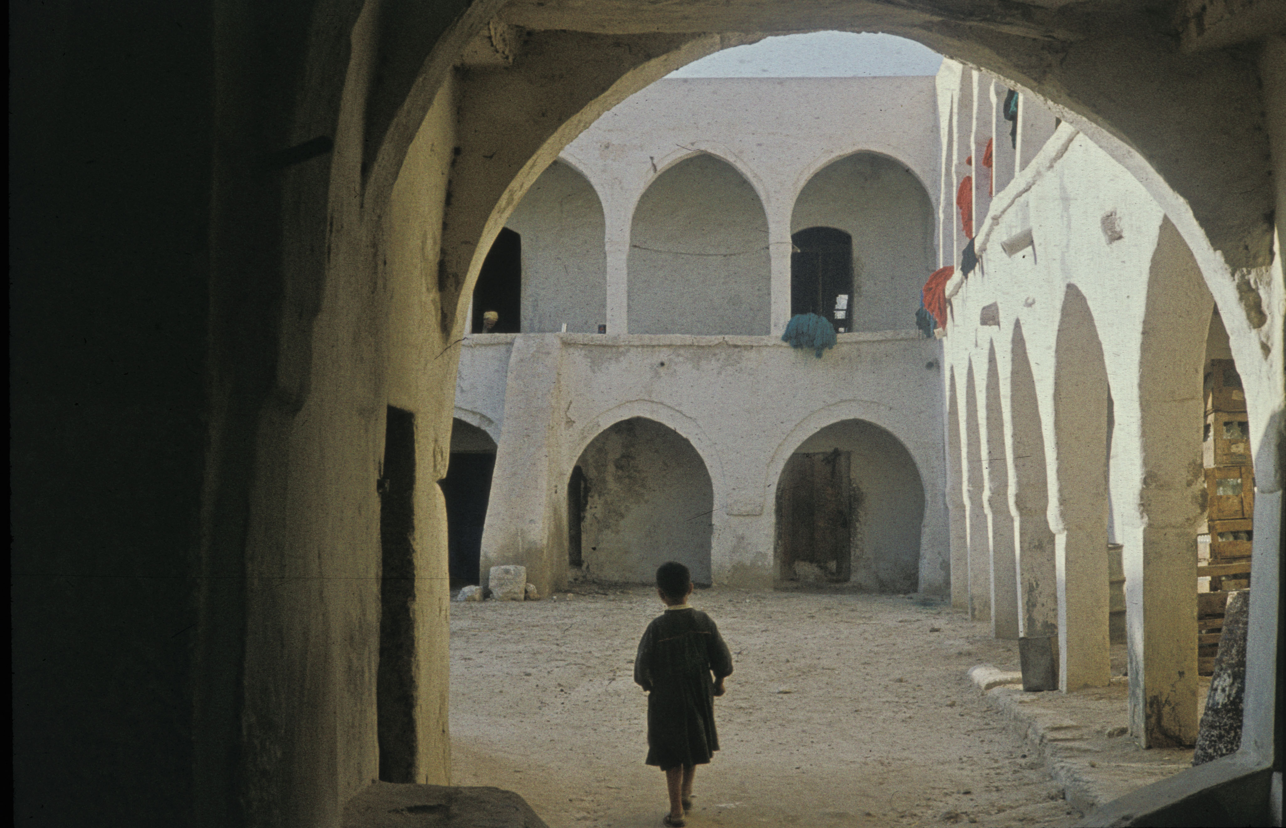 Caravanserai entry, Houmt Souk, Djerba island, Tunisia